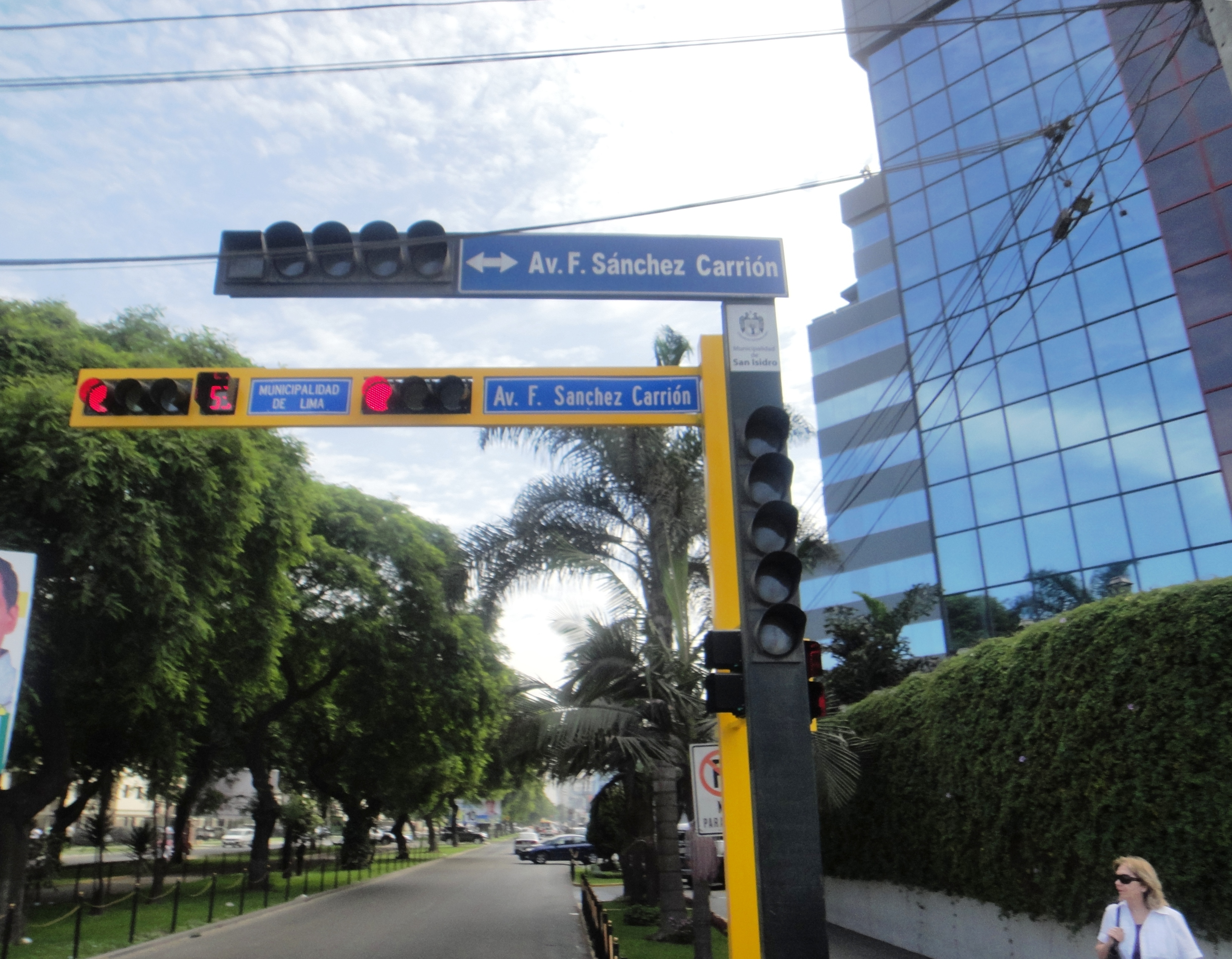 Salaverry Ave. in San Isidro District, Lima-Peru.